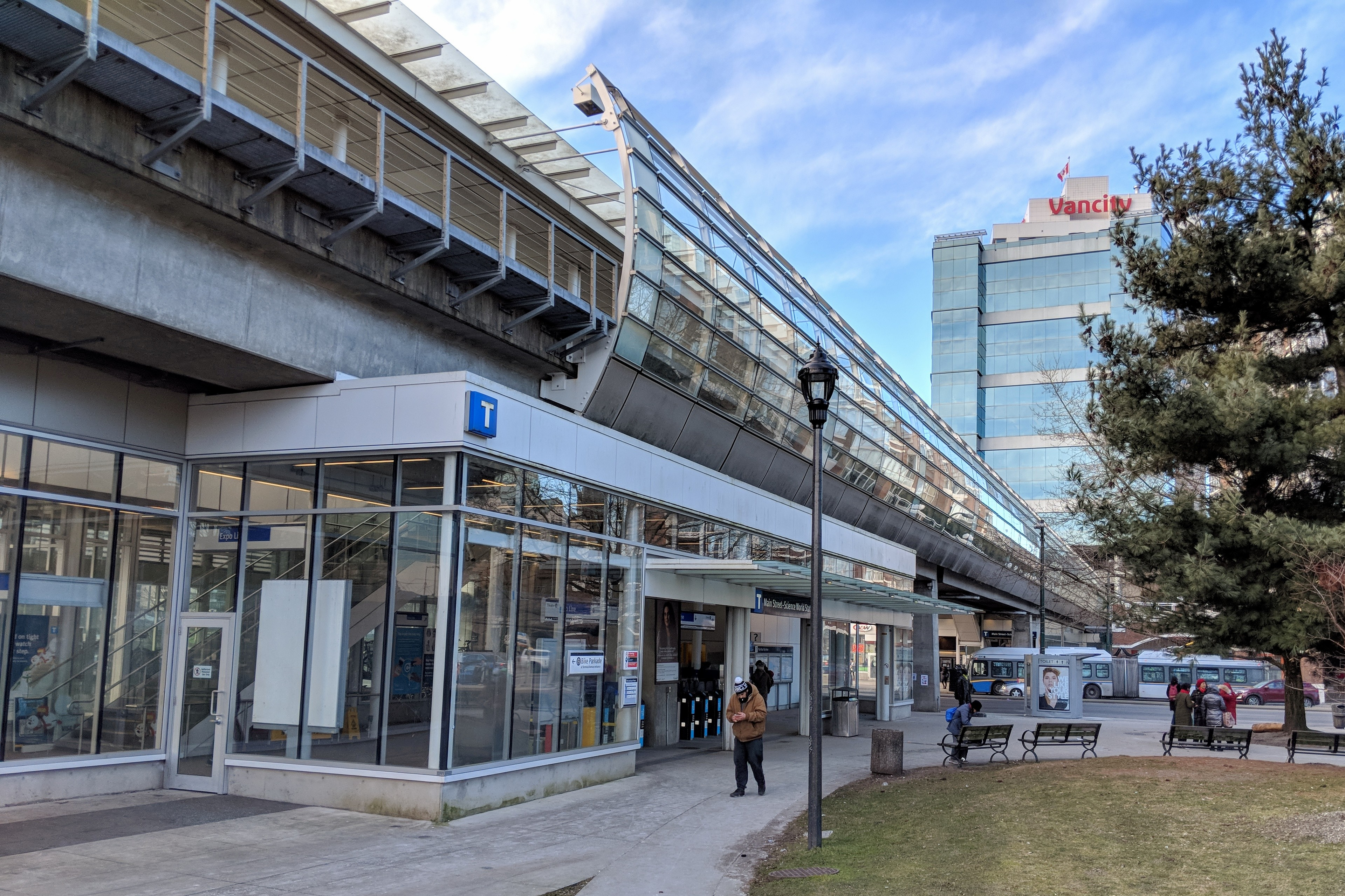 Main Street–Science World station received a major rebuilt during the mid-2010's.